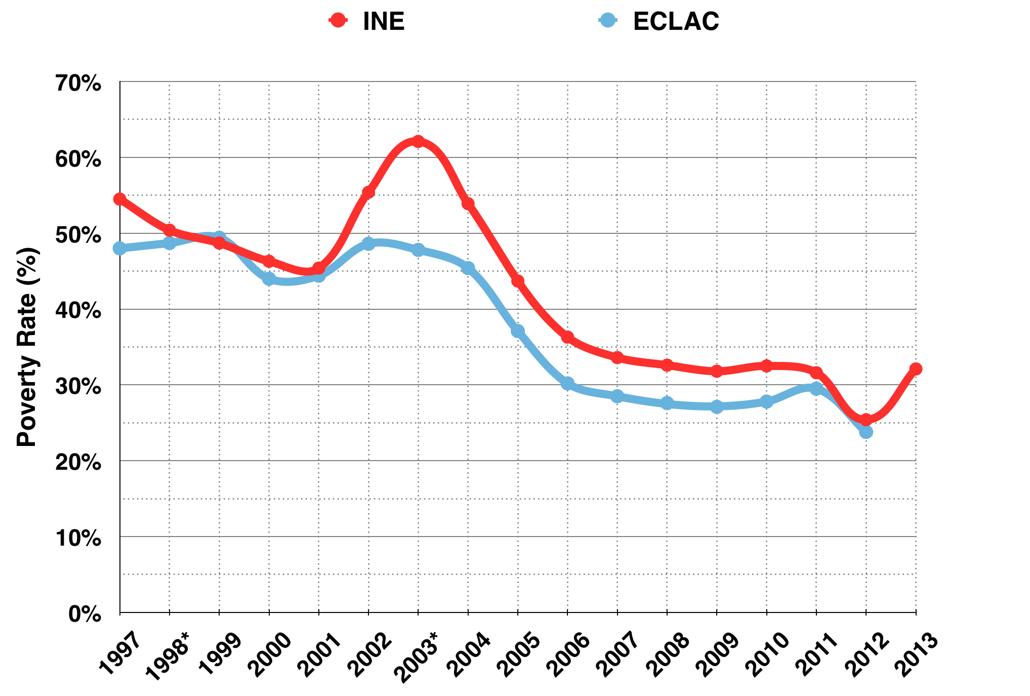 Venezuela Poverty Rate 1997 to 2013. Data provided by Instituto Nacional de Estadistica (INE), Economic Commission for Latin America and the Caribbean (ECLAC) and The World Bank. Average is mean of all data. *1998 & 2003 missing data from ECLAC was corrected and filled in for average.